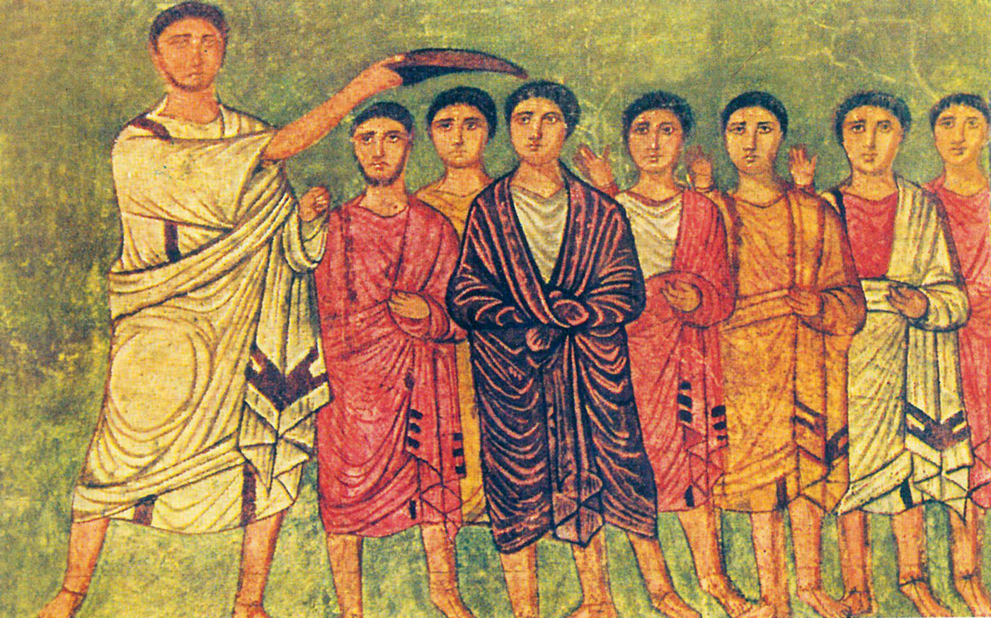 Dura Europos Synagogue, panel WC3 : David anointed king by Samuel.